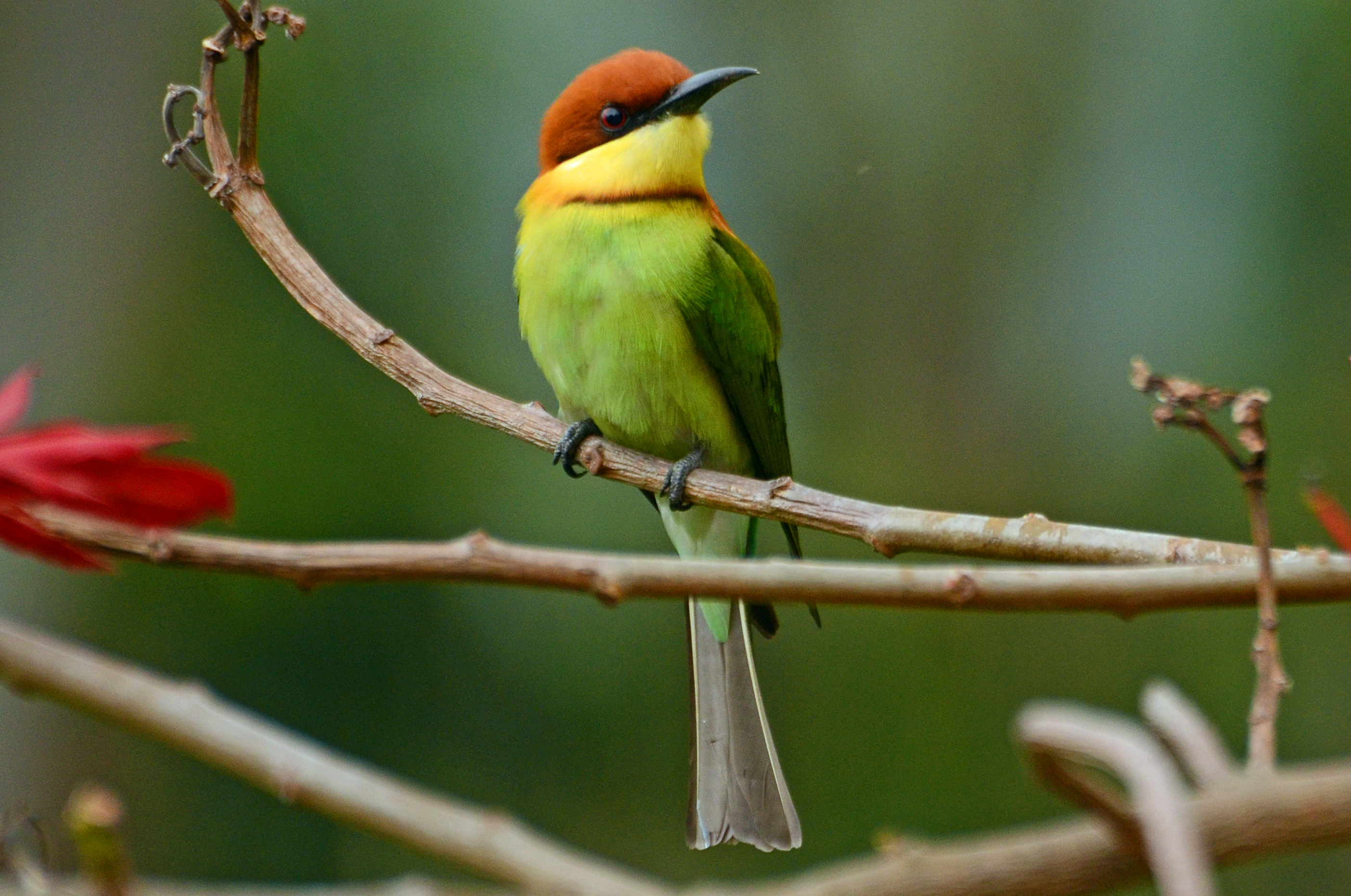 Chestnut-headed bee-eater (Merops leschenaulti) from nilgiris